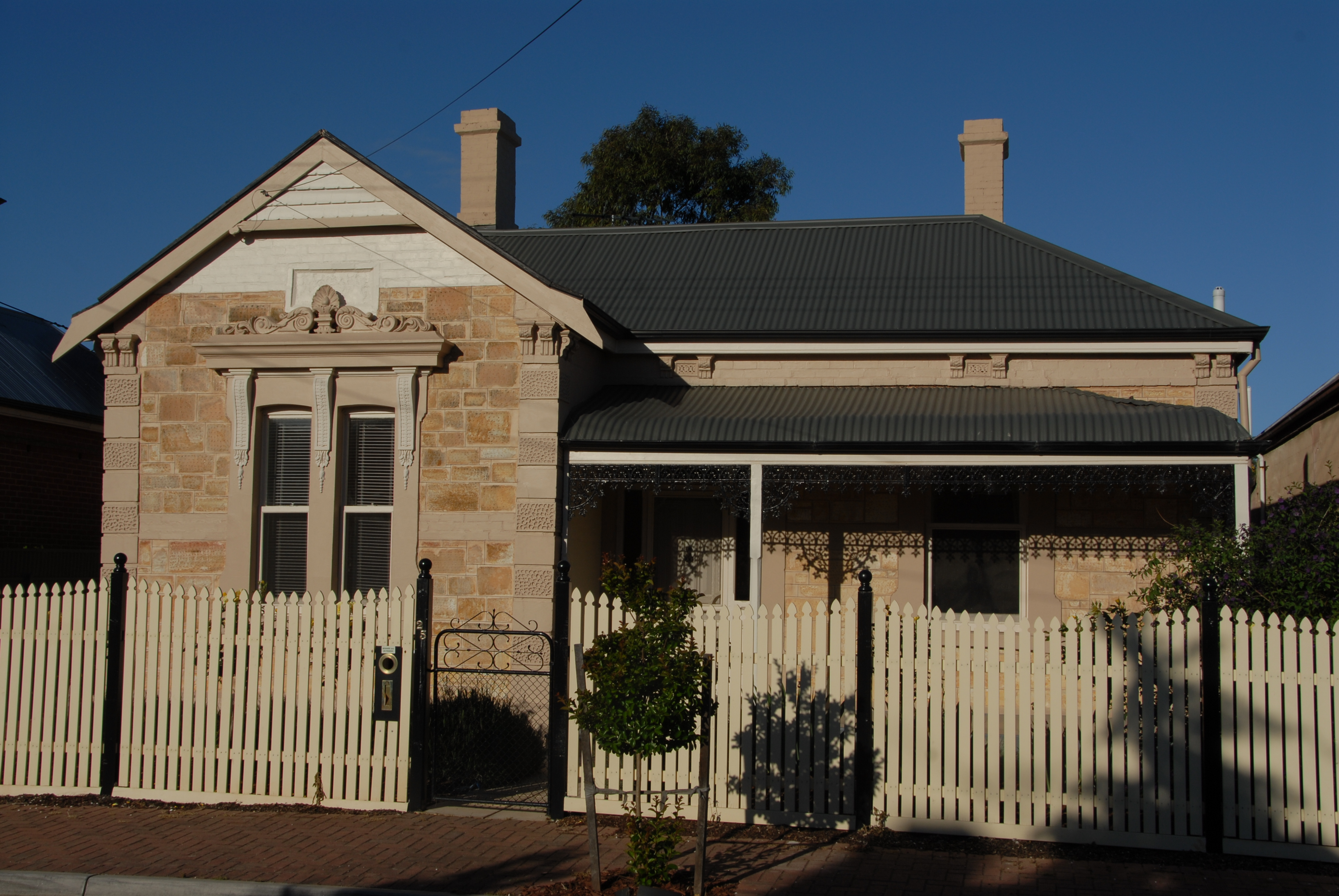 Home of Basil Hadley, Stepney, Adelaide, South Australia (1975-2006).